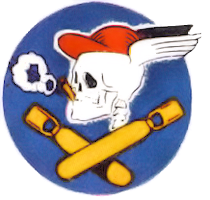 Emblem of the 587th Bombardment Squadron (World War II)